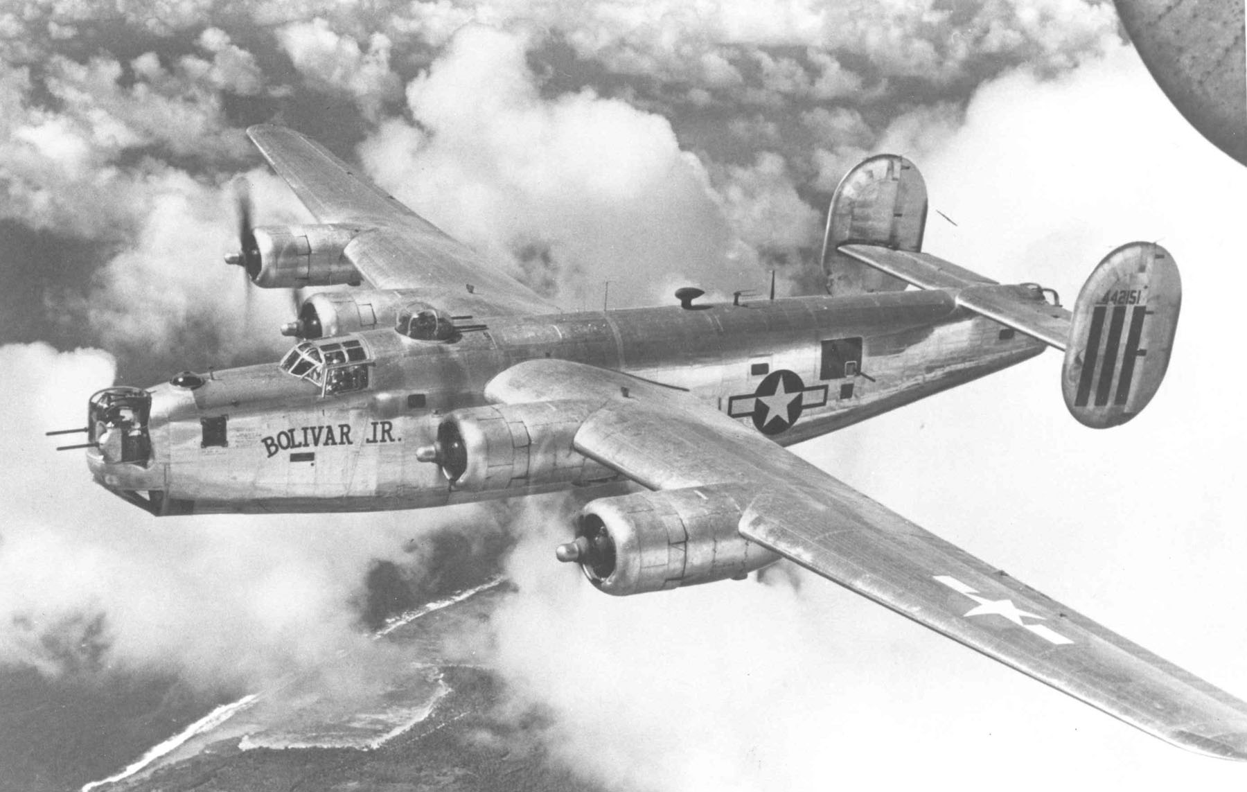 A U.S. Army Air Force Consolidated B-24M-20-CO Liberator (s/n 44-42151) in flight.